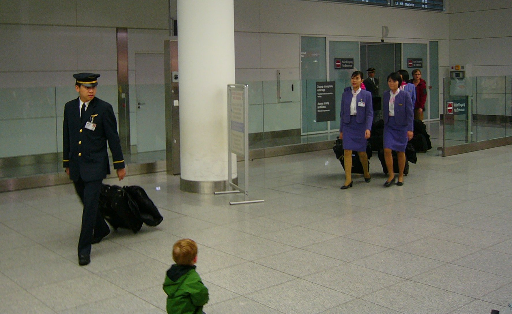 Airborne personell at Franz Josef Strauss International Airport, Munich, Germany (Thai Airways International).